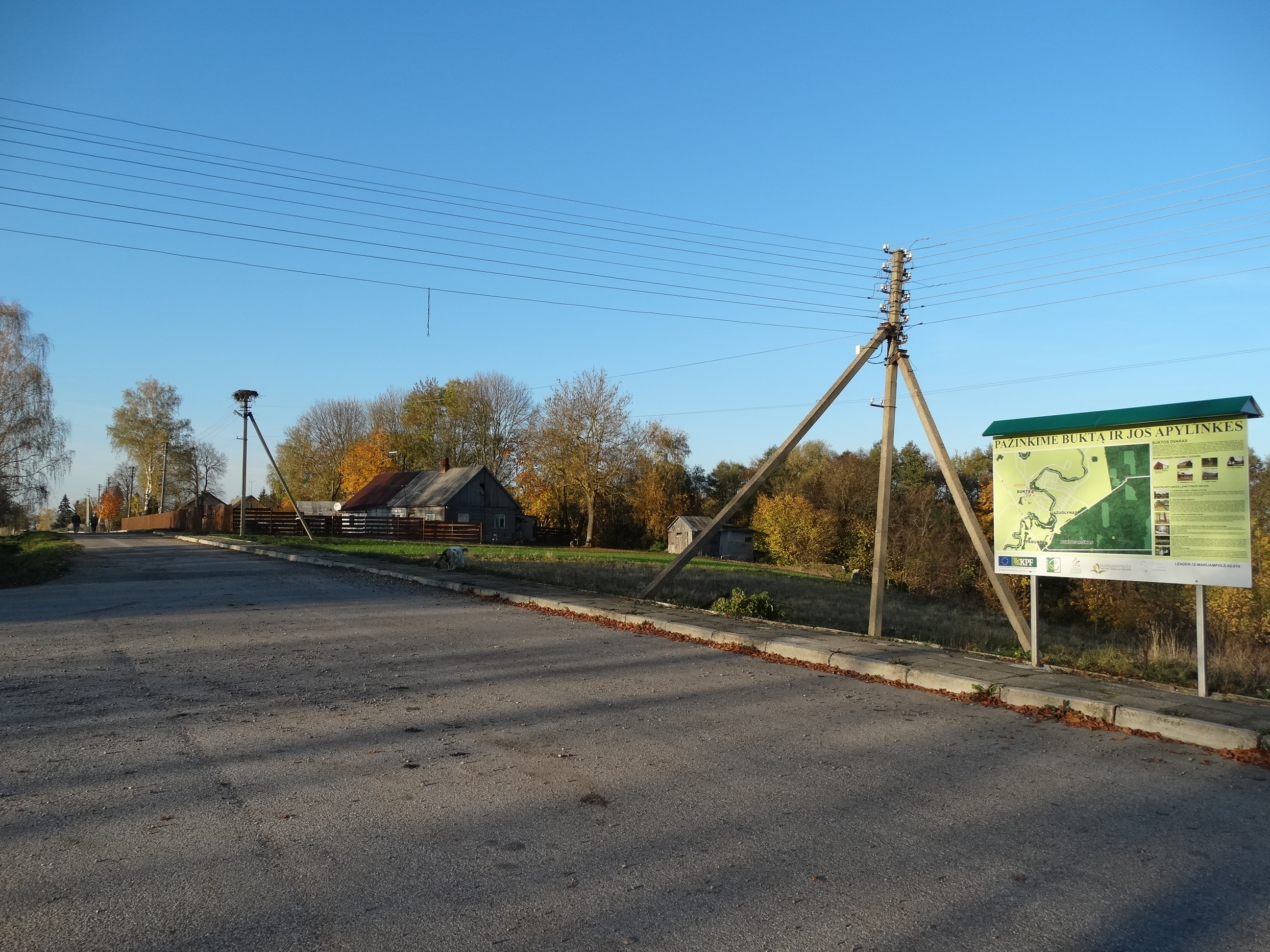 Bukta, Marijampolė municipality, Lithuania